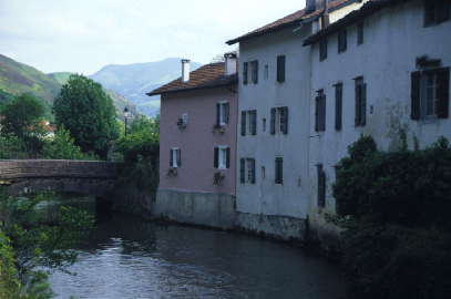 Town of Aldude, Basque Country. Photo taken May 2002 by Romarin.